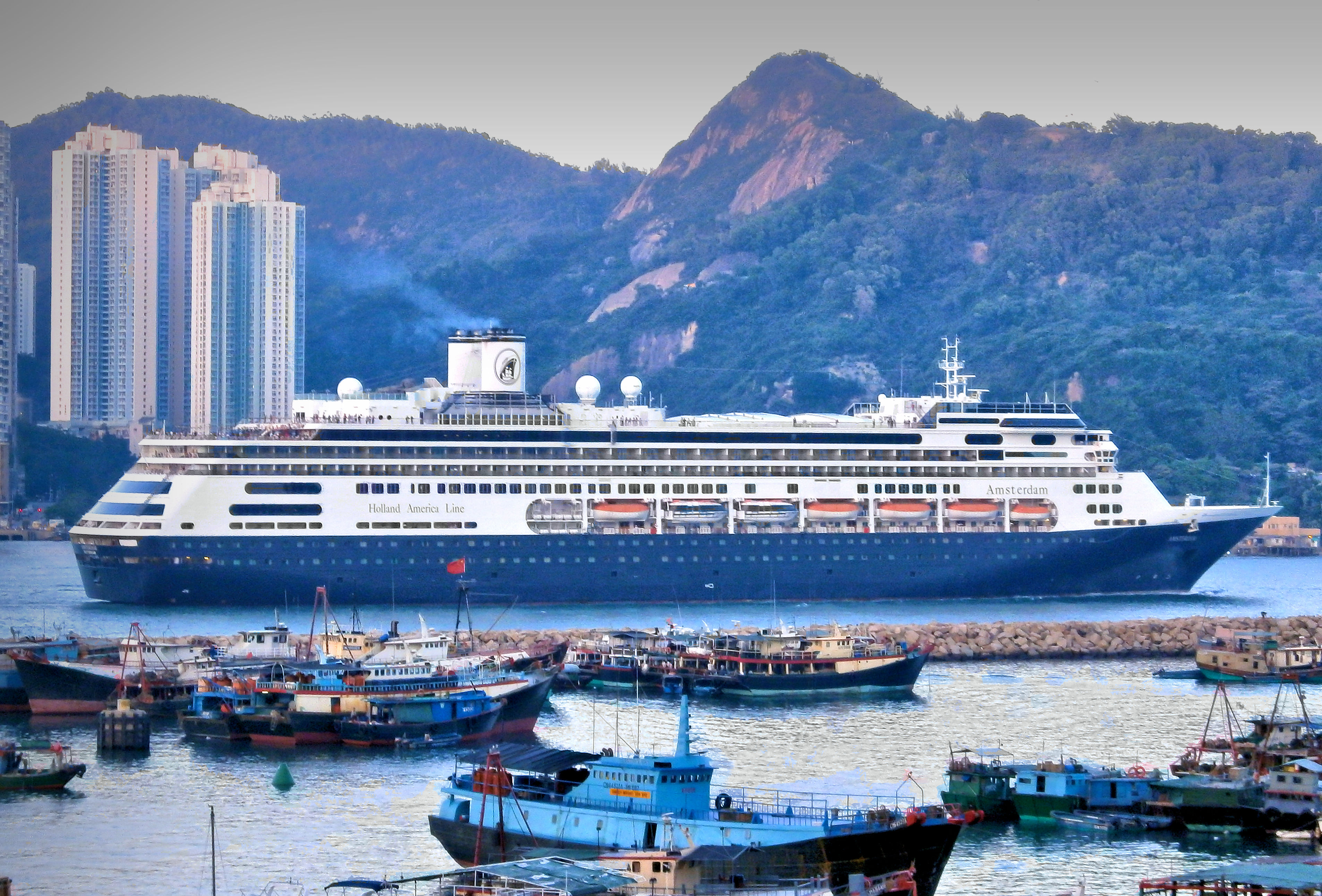 MS Amsterdam passing through Lei Yue Mun